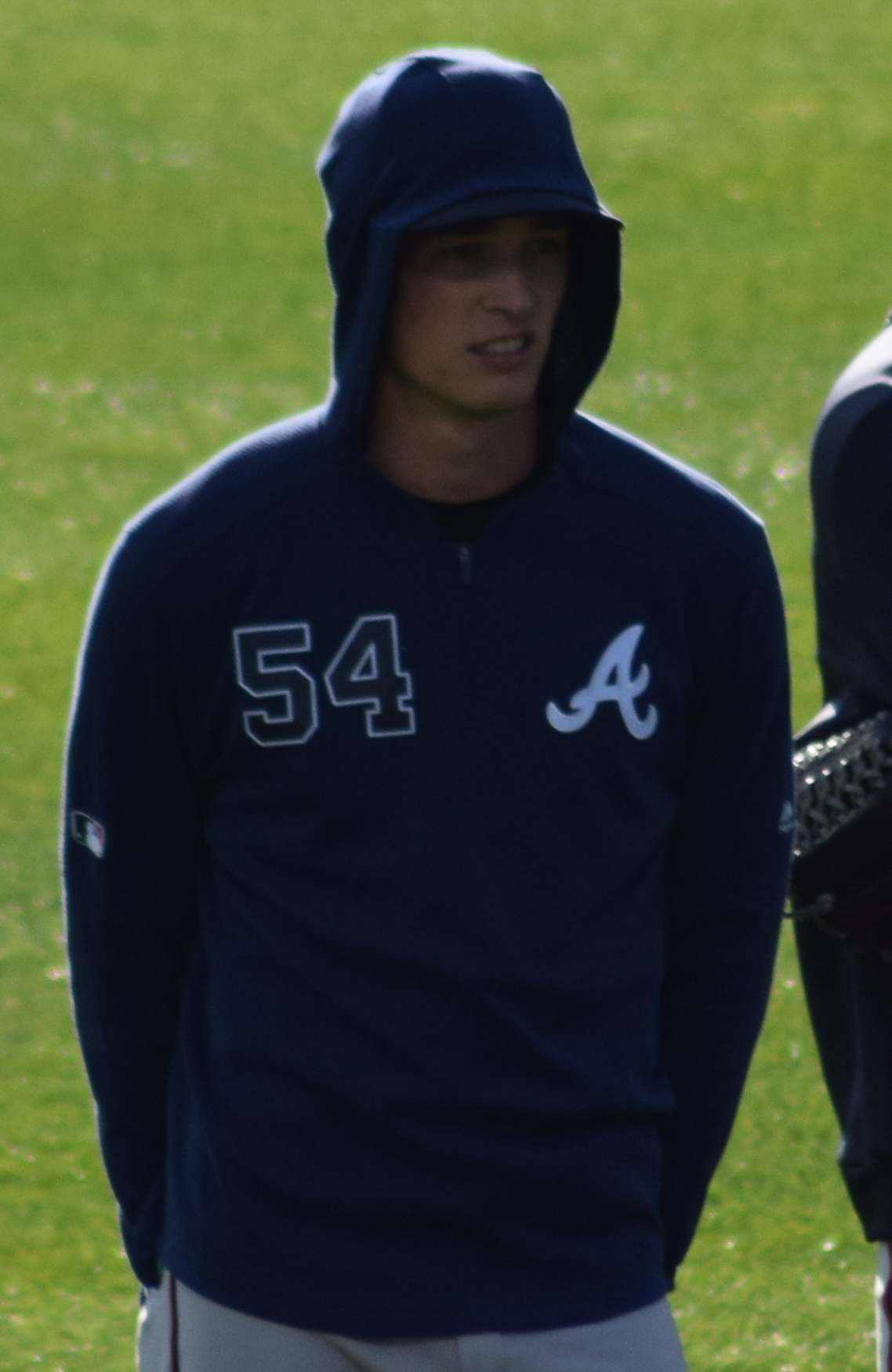 Max Fried and Bryse Wilson of the Atlanta Braves before a game at Citizens Bank Park in Philadelphia in 2019